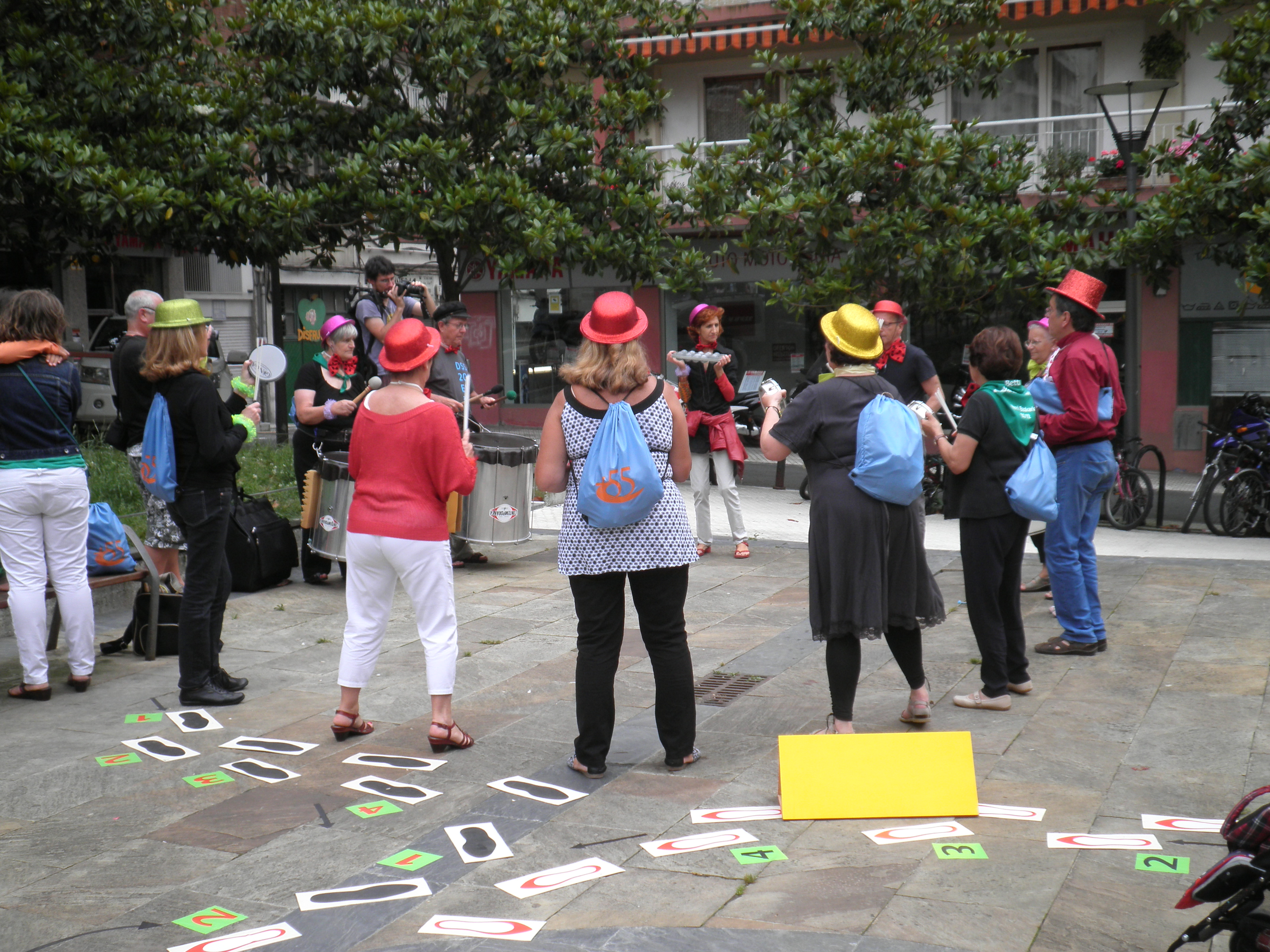 Batucada in Egia, Donostia, Basque Country.